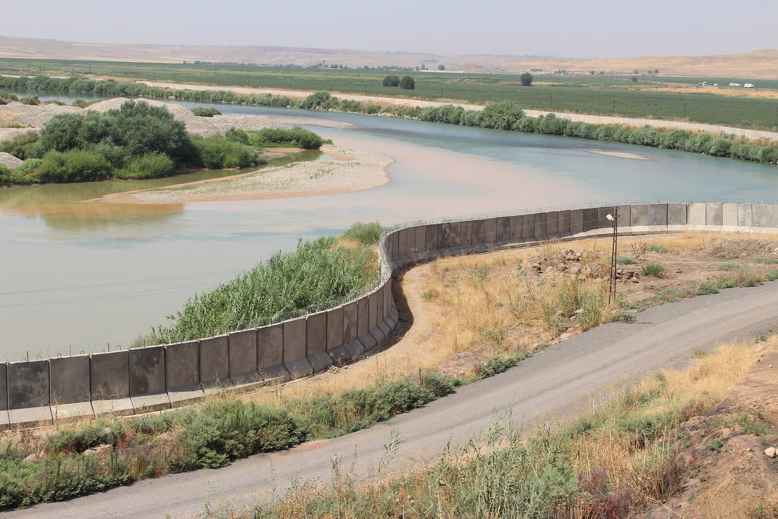 The Syria–Turkey barrier is a border wall (seven-tonne concrete blocks topped with razor wire, stand three meters (9.8 feet) high, two meters (6.6 feet) wide, security road) along the Syria–Turkey border aimed at preventing illegal crossings and smuggling from Syria into Turkey